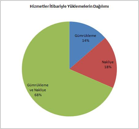 Types of loadings in Turkish